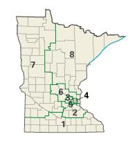 Image adapted from US fed gov't source Category:Congressional districts of Minnesota